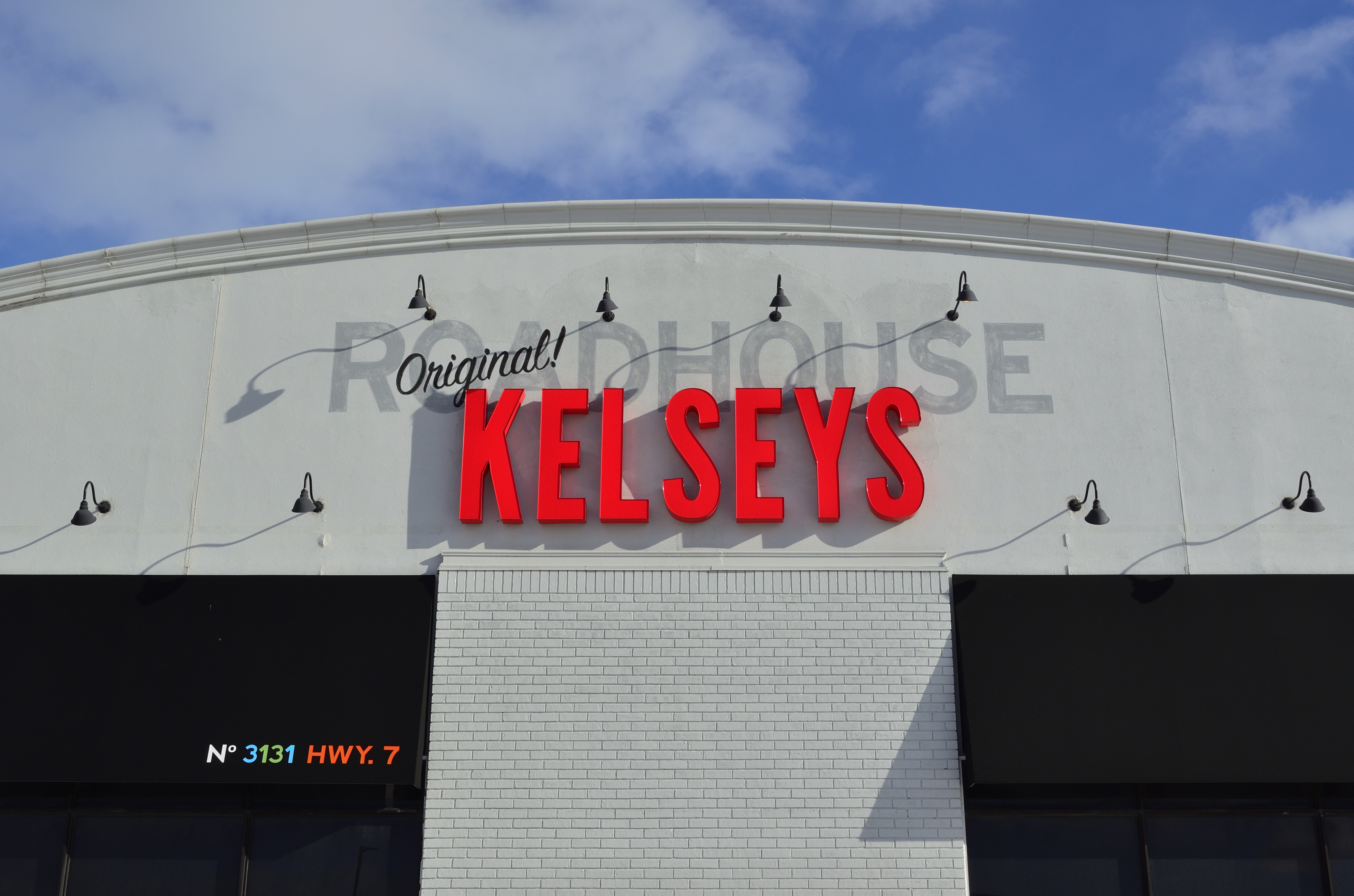 Kelseys Original Roadhouse in Markham